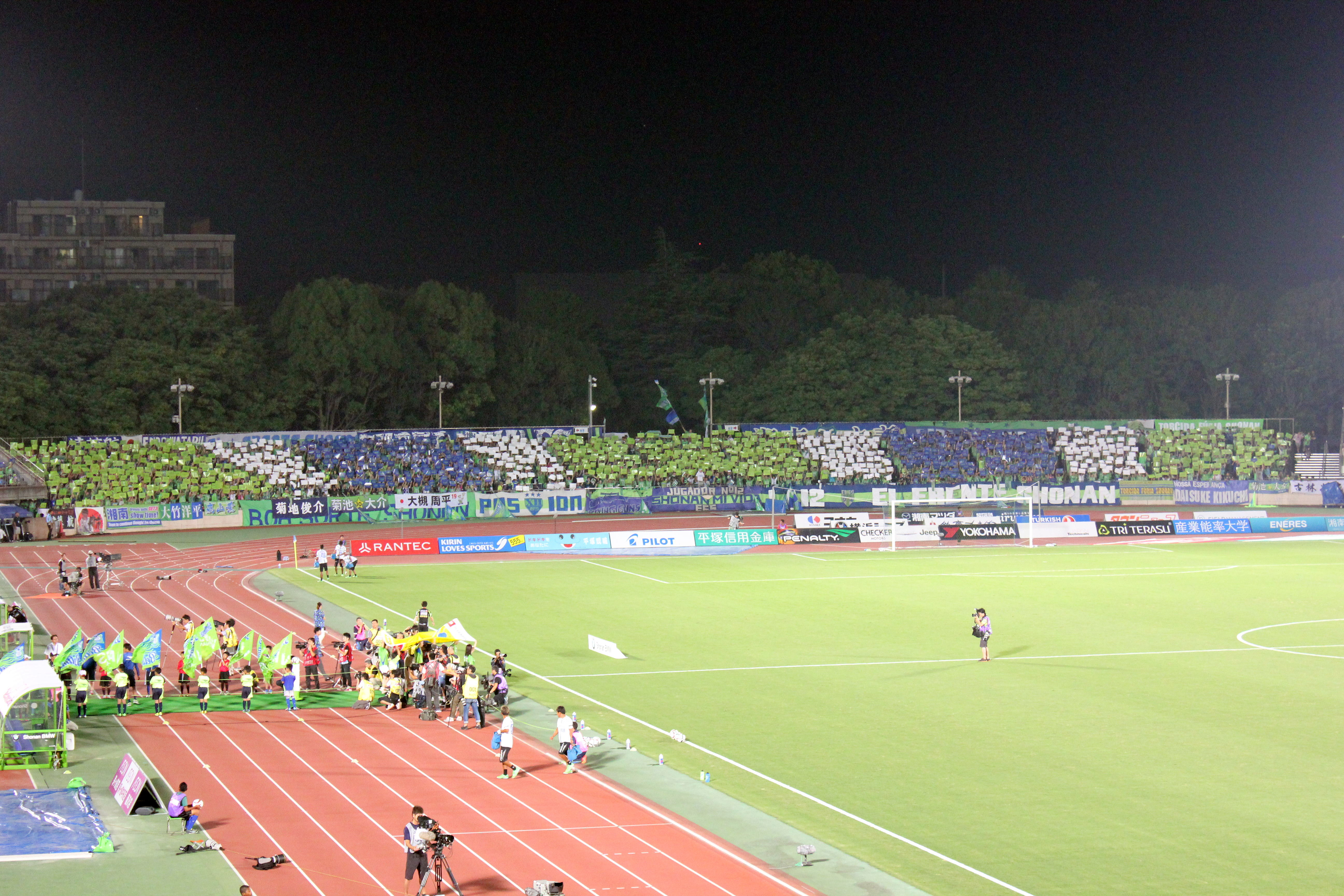 Shonan-BMW Stadium